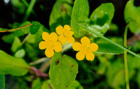 Mimulus moschatus, Clearwater National Forest, USA